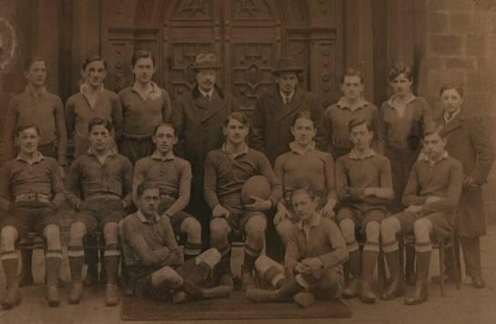 Rugby team of Serbian students in Georg Heriot school in Scotland 1918